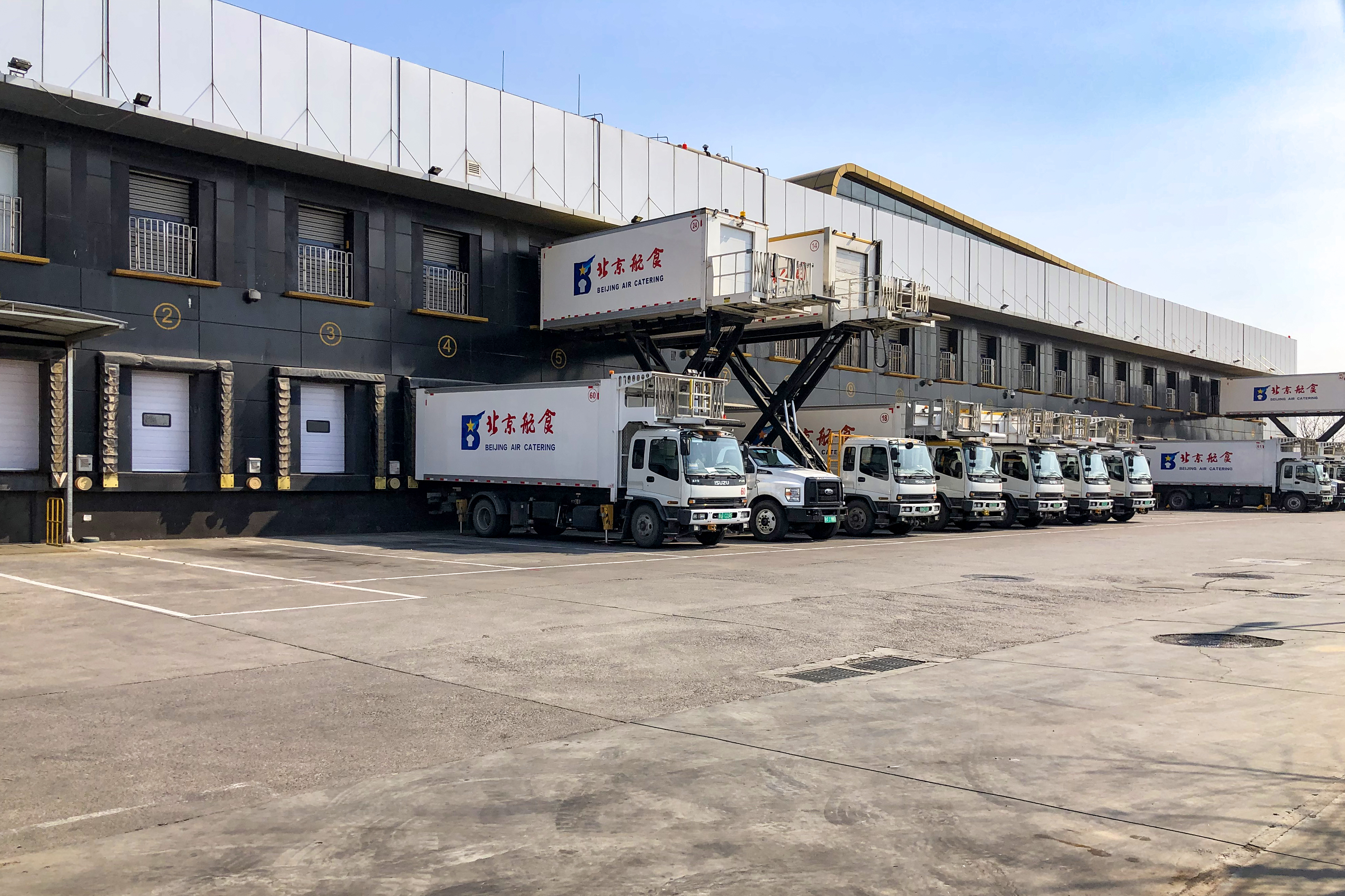 This is where meals are loaded onto the truck.